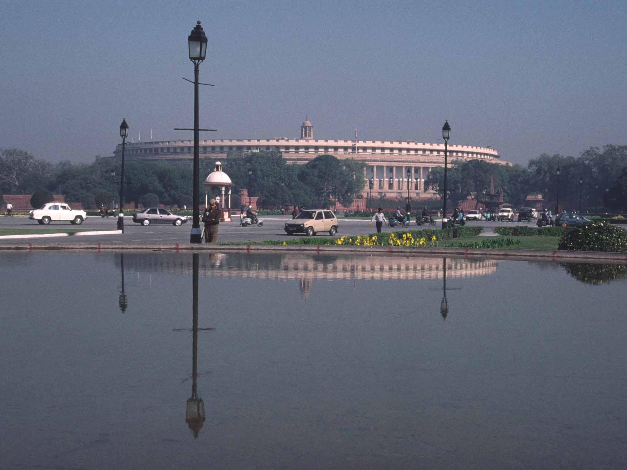 Parliament building in New Delhi (Sansad Bhavan) and reflections